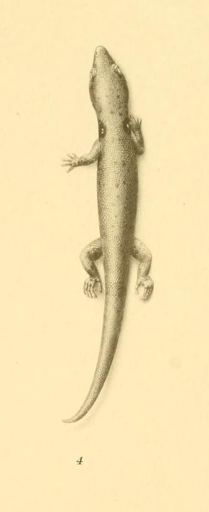 Illustration of Sphaerodactylus vincenti monilifer specimen from Dominica (identified as S. monilifer). Barbour, Thomas (1921). "Sphaerodactylus." Mem. Mus. Comp. Zool. 47:3, Pl. 9, Fig. 4.